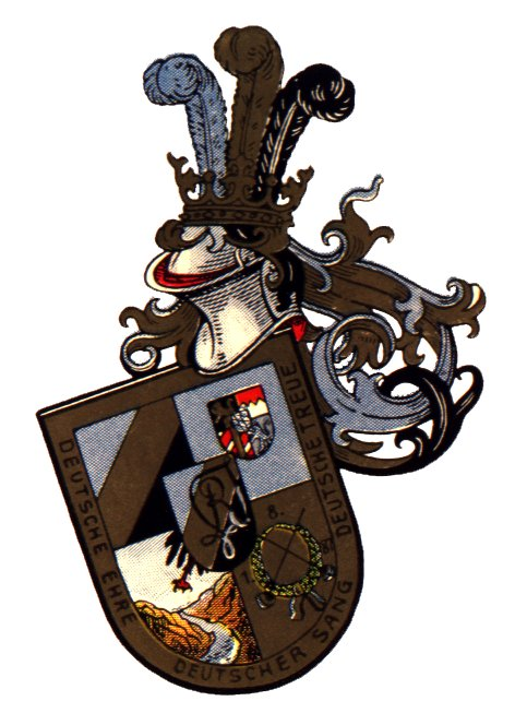 Der Wappen der Münchener Burschenschaft Arminia-Rhenania.